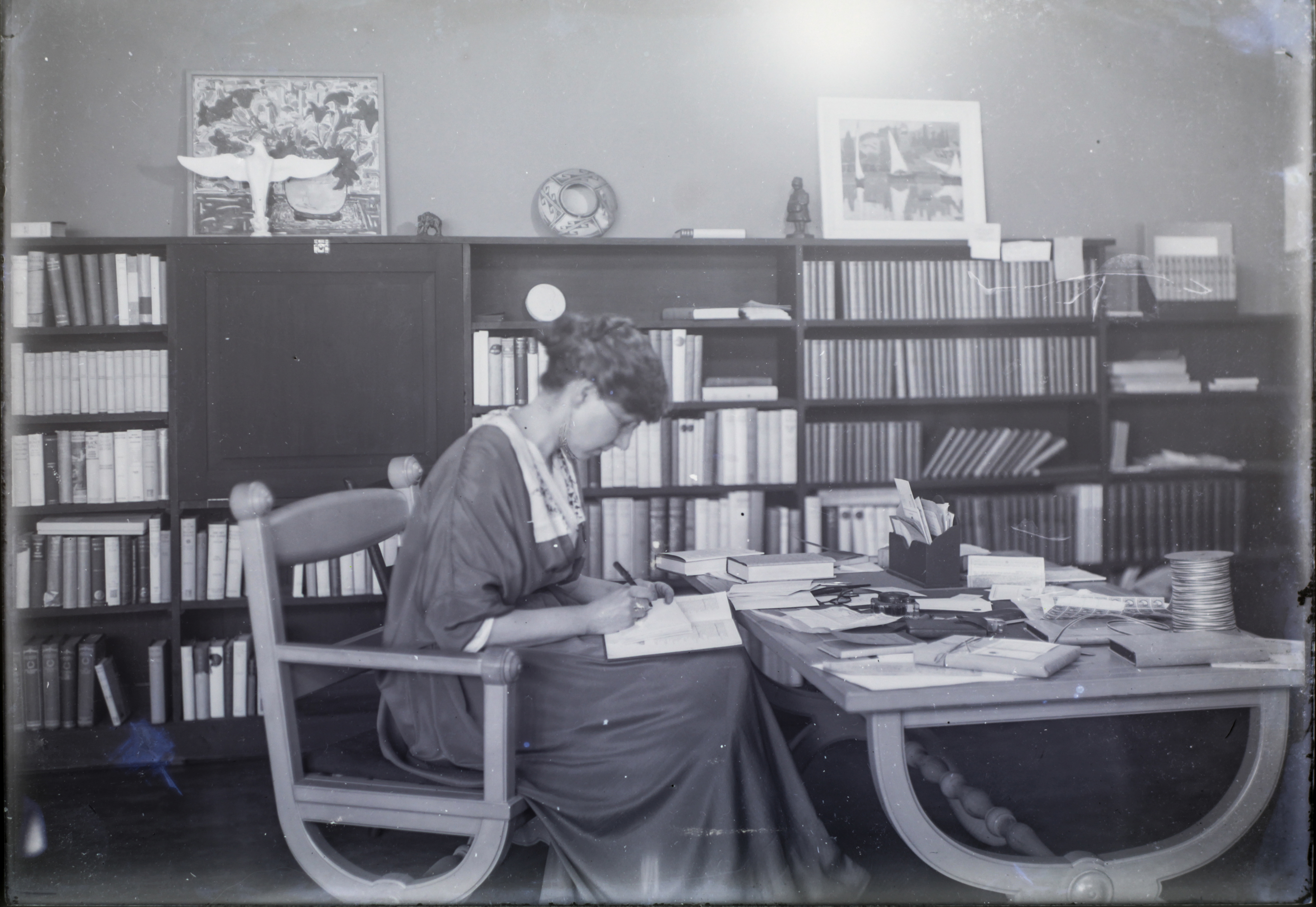 Madge Jenison circa 1916 at The Sunwise Turn Bookstore in its first location at 2 E. 31st. St. in New York City.